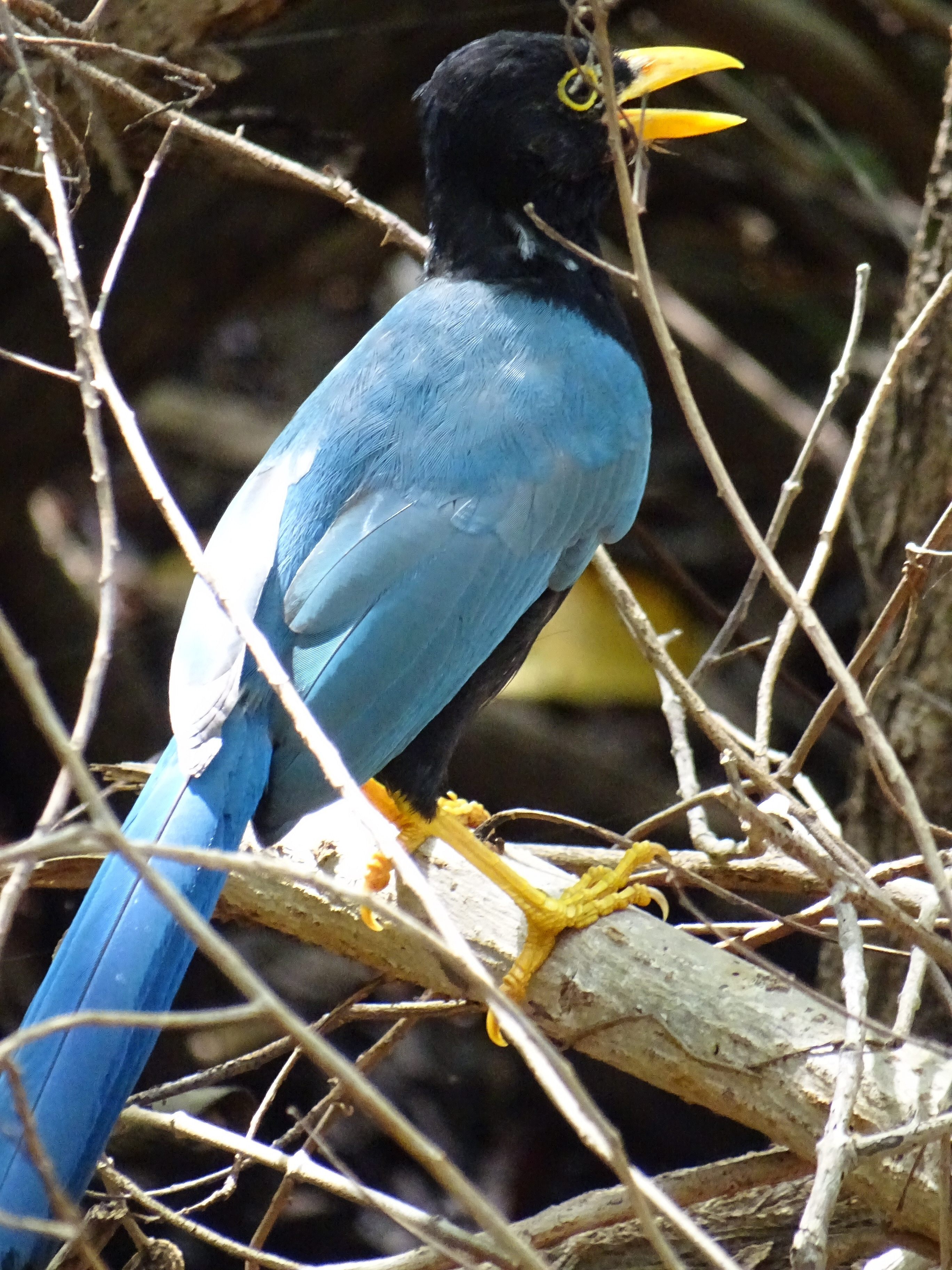 Yucatan Jay Cyanocorax yucatanicus, subadult. Tulum Archaeological Site - Quintana Roo - Mexico